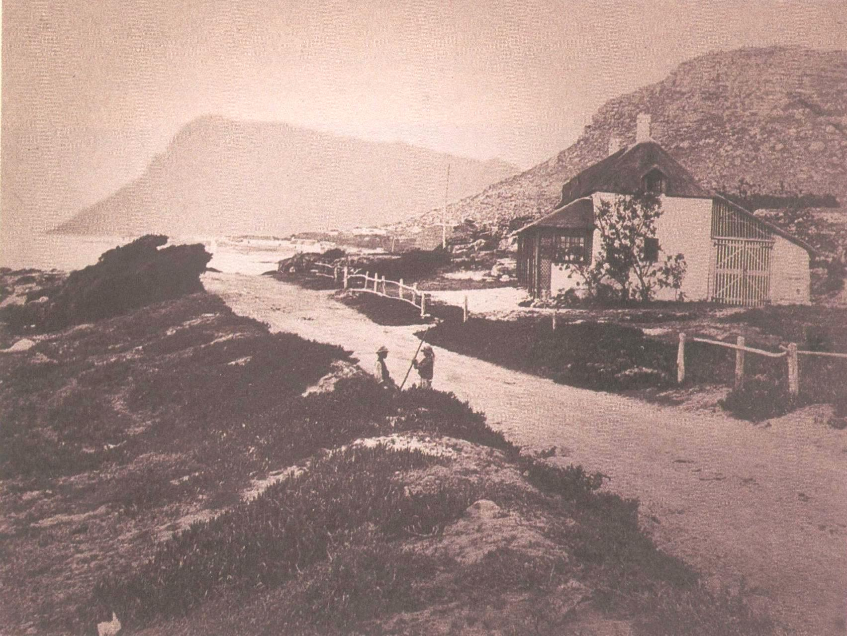 Old photograph of Beaufort House in Kalk Bay. Coastal retreat of Prime Minister John Molteno. Cape Archives. 1880